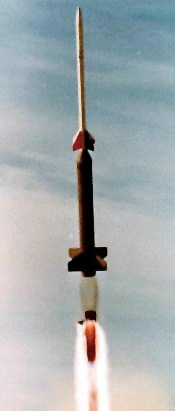 A XMQR-13A (Nike Apache) Ballistic Missile Test System rocket being launched